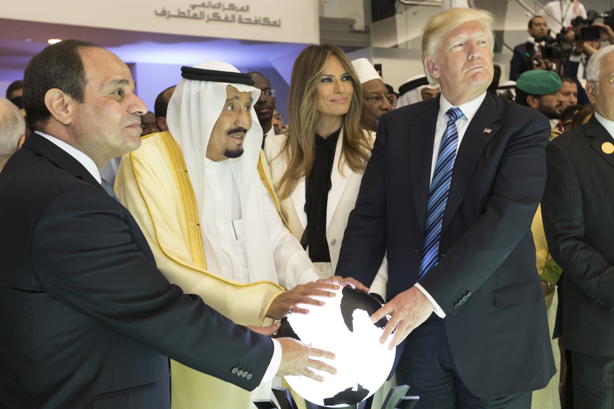 L to R: Abdel Fattah el-Sisi, King Salman of Saudi Arabia, Melania Trump, and Donald Trump, May 2017 President Donald Trump and First Lady Melania Trump join King Salman bin Abdulaziz Al Saud of Saudi Arabia, and the President of Egypt, Abdel Fattah Al Sisi, Sunday, May 21, 2017, to participate in the inaugural opening of the Global Center for Combating Extremist Ideology. (Official White House Photo by Shealah Craighead)